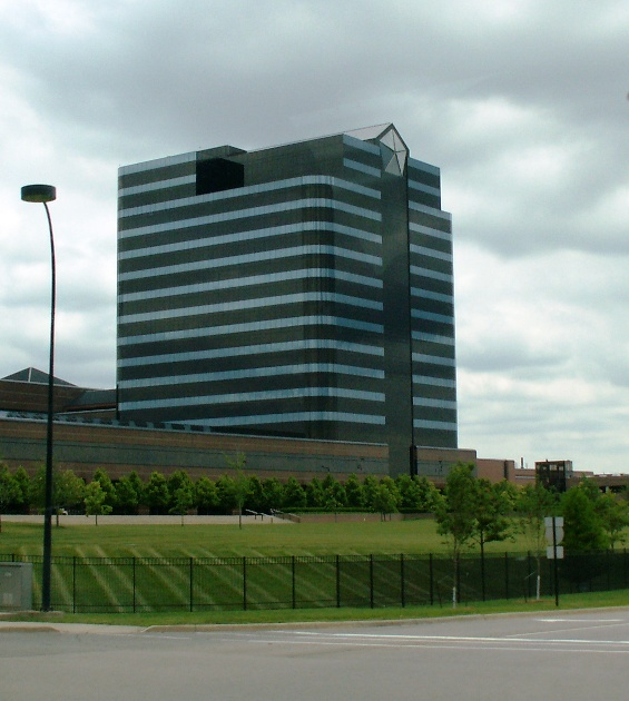 Chrysler Headquarters in Auburn Hills, Michigan, United States